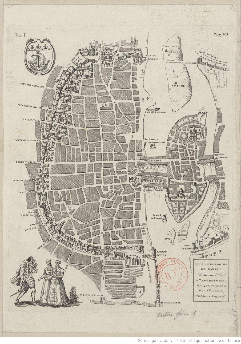 Northern part of Paris from a german plan (1572 & 1574). With the wall of Philippe-Auguste, its gates and its posterns.